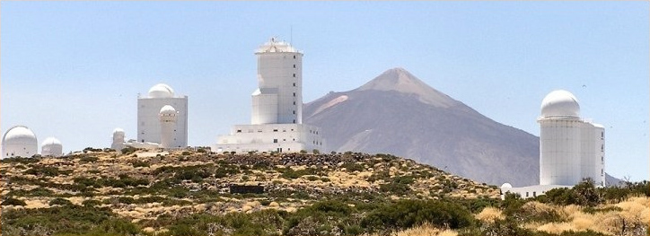 Astronomical Observatories in Izaña, Tenerife (Canary Islands, Spain).